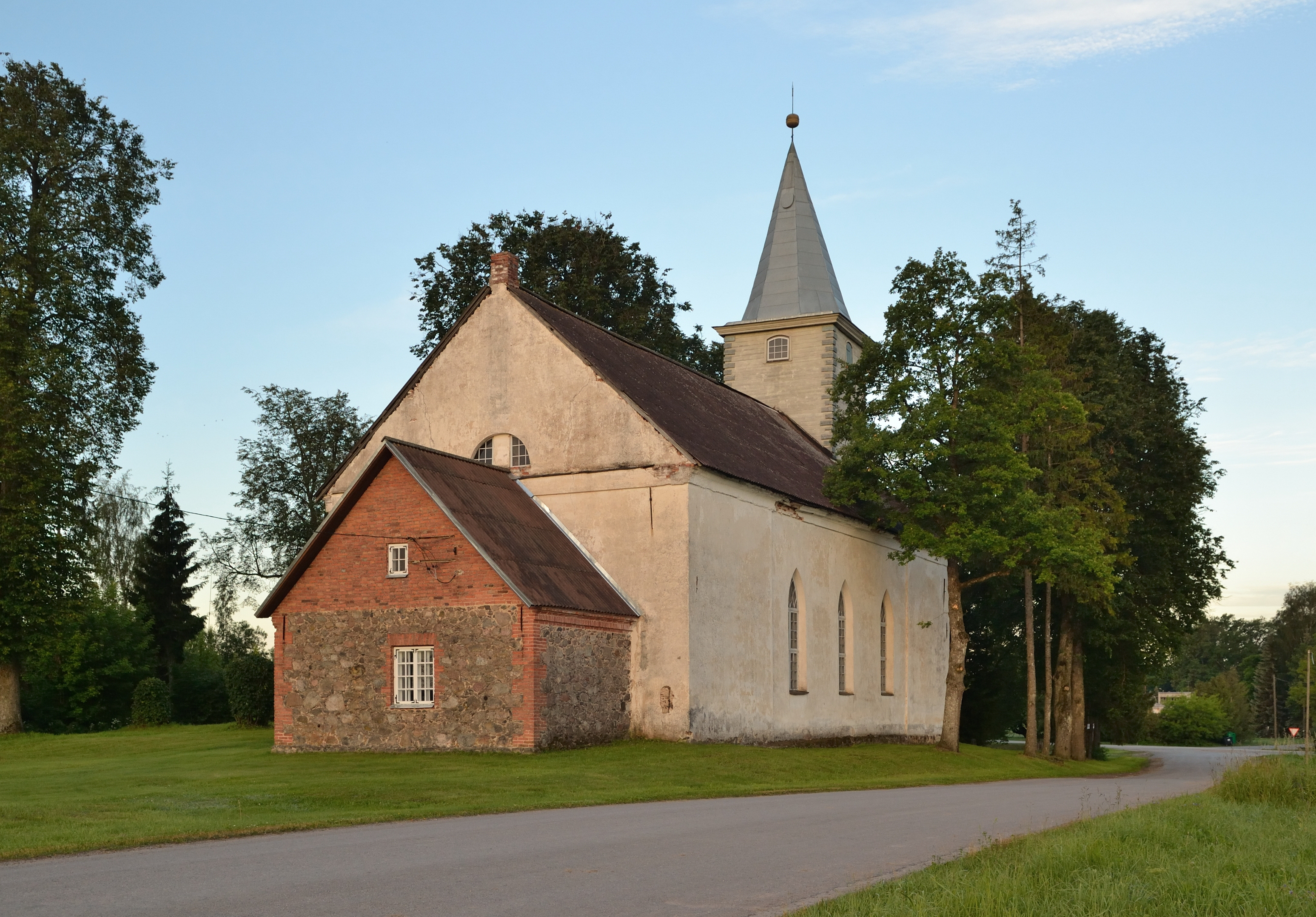 Saint Lawrence Lutheran church in Laatre (Estonia), built in 1831